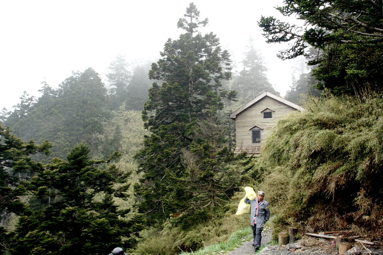 Abies kawakamii, Yushan, Taiwan